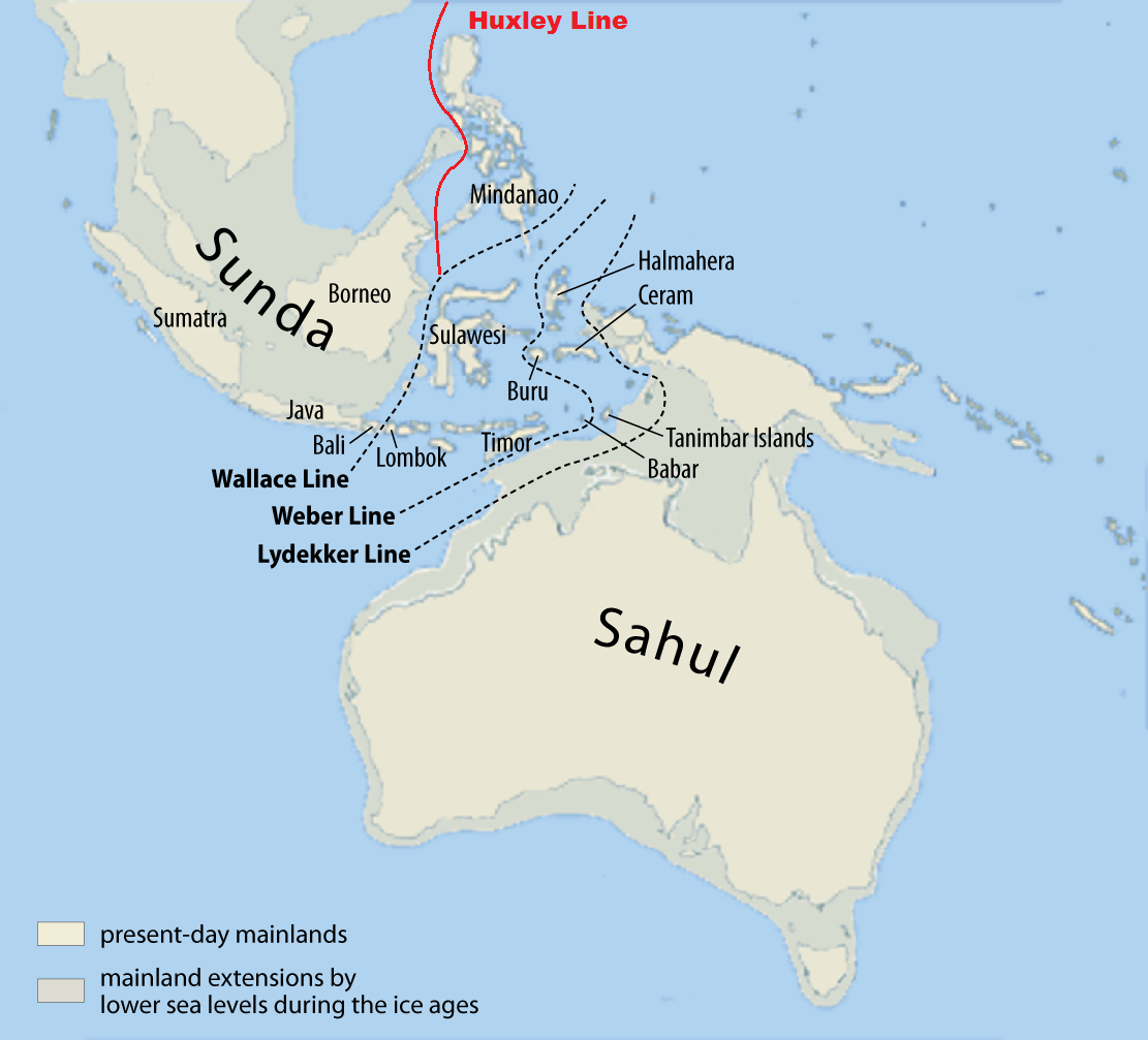 Modified map of Maximilian Dörrbecker (Chumwa) Source=Base map derived from File:Karte von Sunda und Sahul.png. Work of Map of Sunda and Sahul and the Wallace Line, the Lydekker Line and the Weber Line